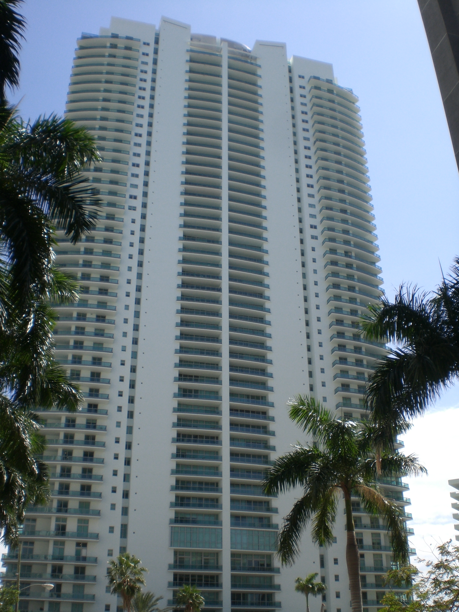 Jade at Brickell Bay residential tower in Miami's Financial District.